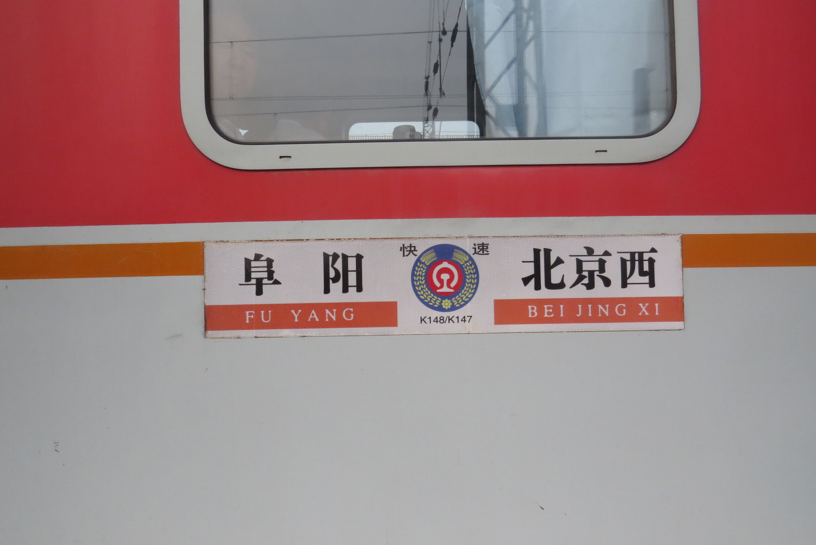 Beijing to Fuyang, destined to be busy. Formerly 1621/1622, which commenced operations in 2000.